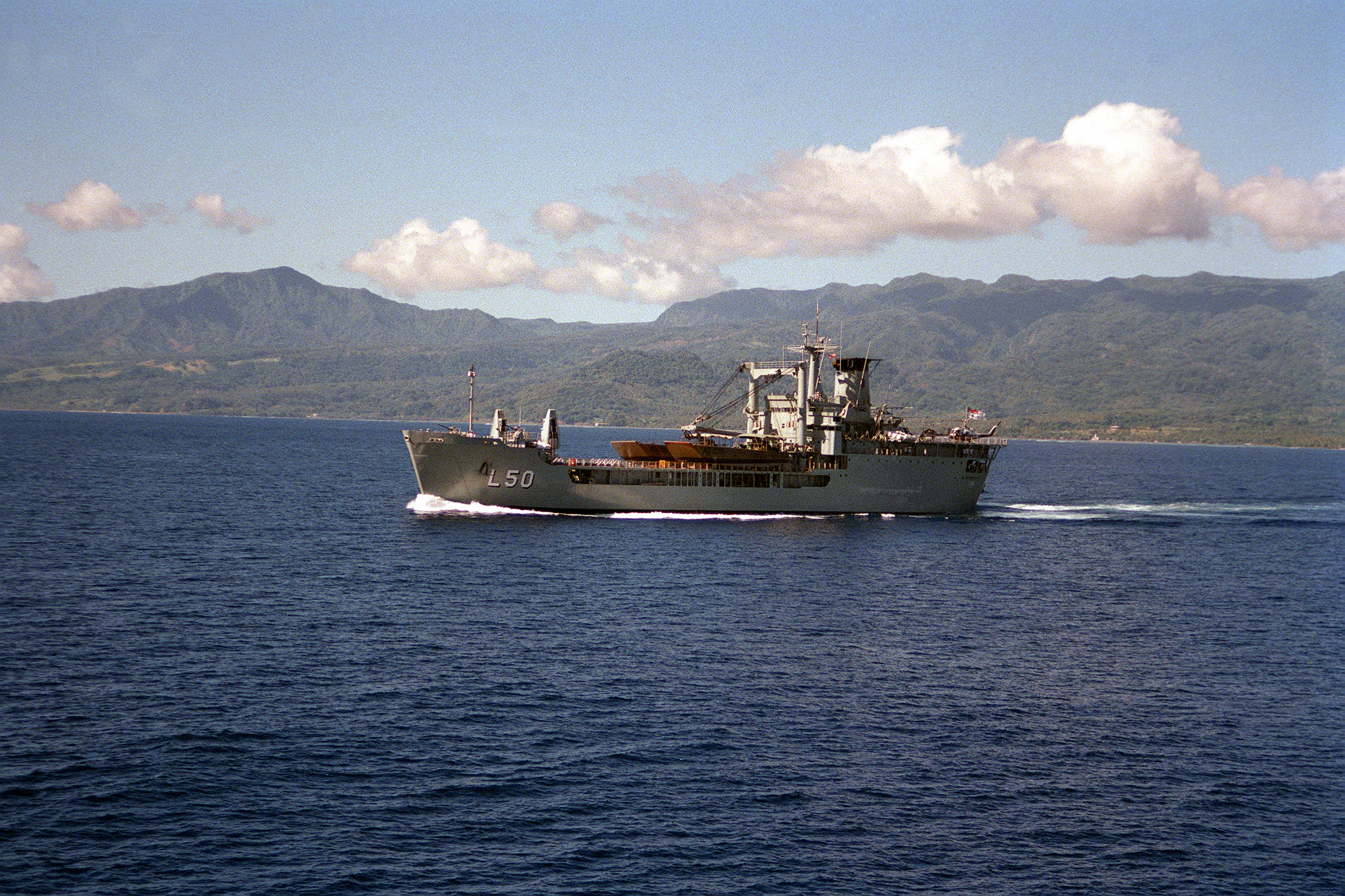 the Royal Australian Navy heavy landing ship HMAS Tobruk (L 50) underway near Samoa in 1987.